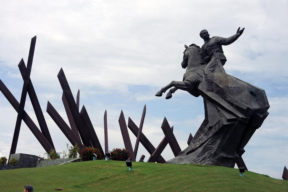 Maceo Monument at the Santiago de Cuba Revolution Square, by Alberto Lescay